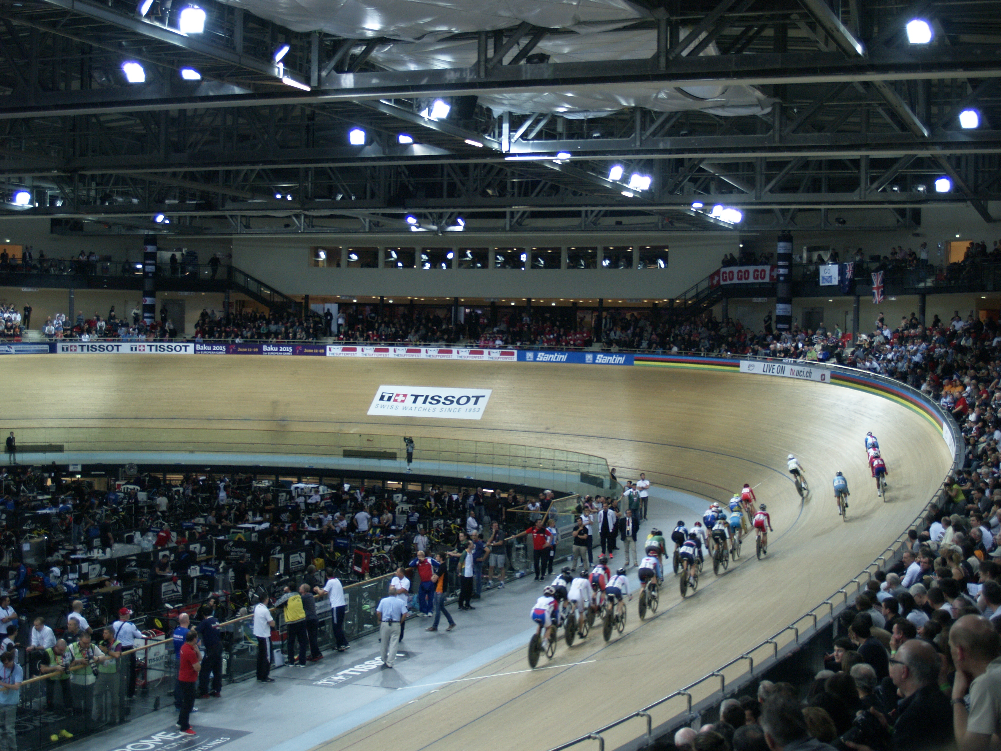 2015 UCI Track World Championships